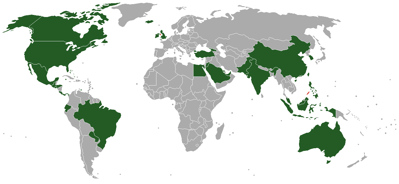 Own work by using data from here [1]